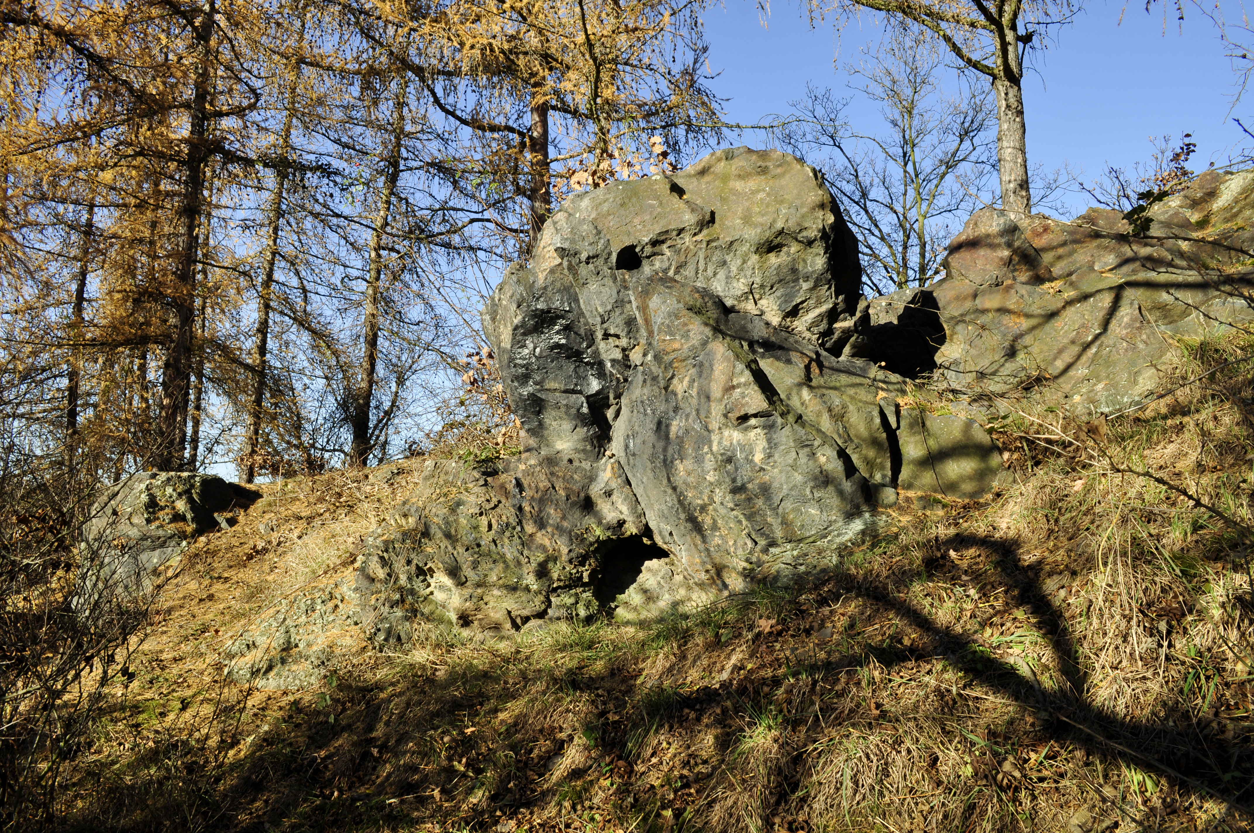 Natural Monument Zlatnice - rocky headland